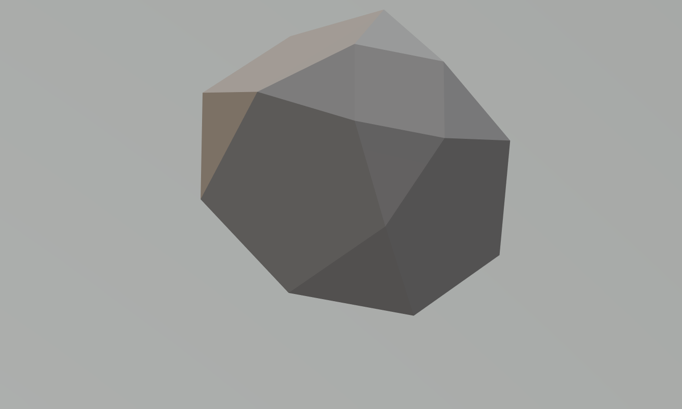 the square rotunda